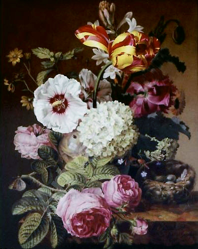 "Still Life of Flowers in a Vase and a Bird's Nest Resting on a Mable Ledge" by Jacques Barraband (1767-1809), painting on porcelain, 1797.